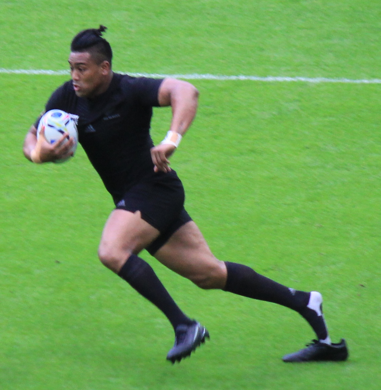 New Zealand international rugby union footballer Julian Savea playing in 2015 Rugby World Cup game New Zealand vs Argentina at Wembley Stadium in London.